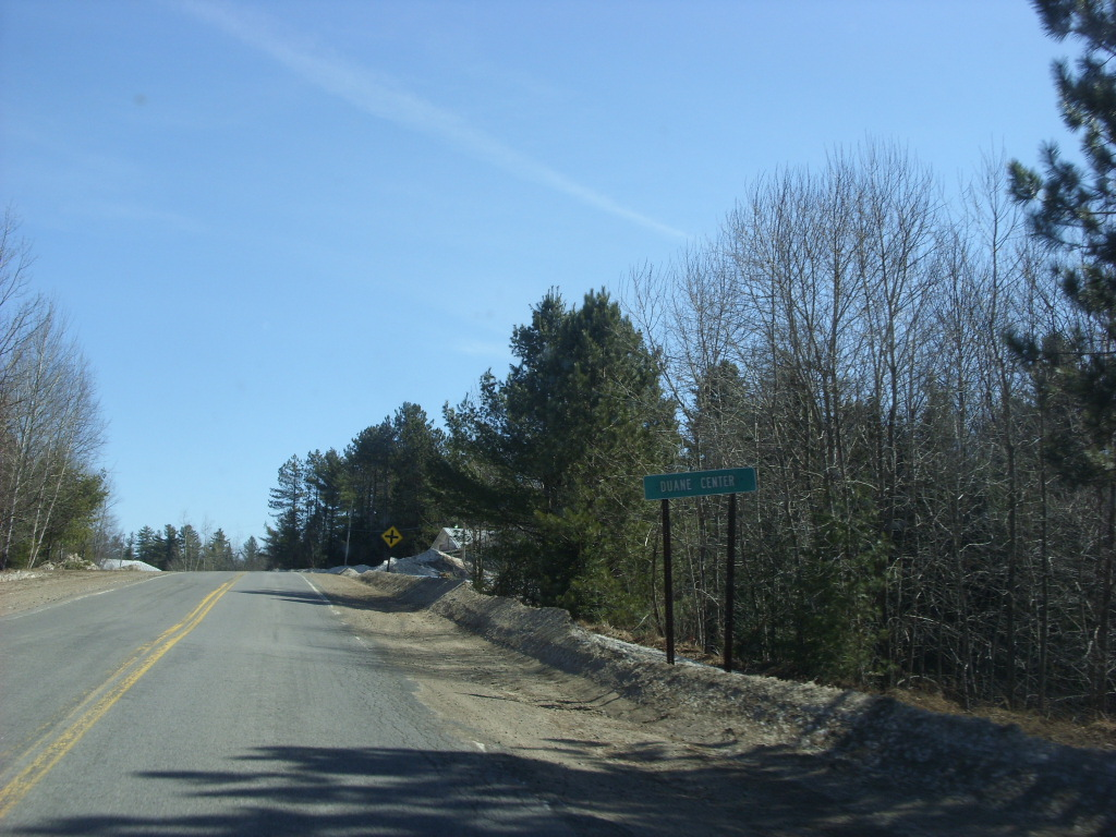 Approaching Duane Center on Franklin County Route 26 (former New York State Route 99) in Duane.